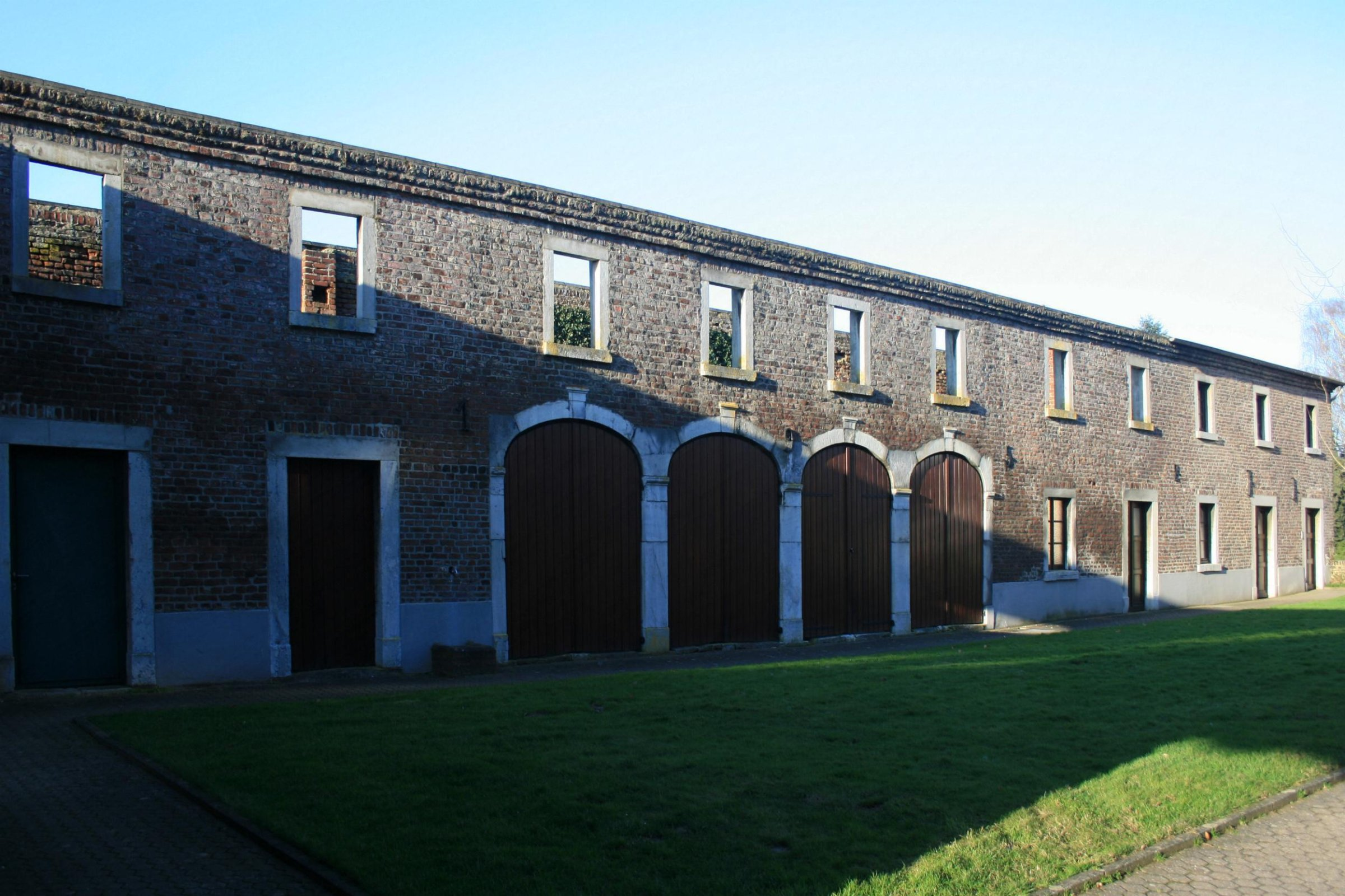 Cultural heritage monument No. 22 in Jülich